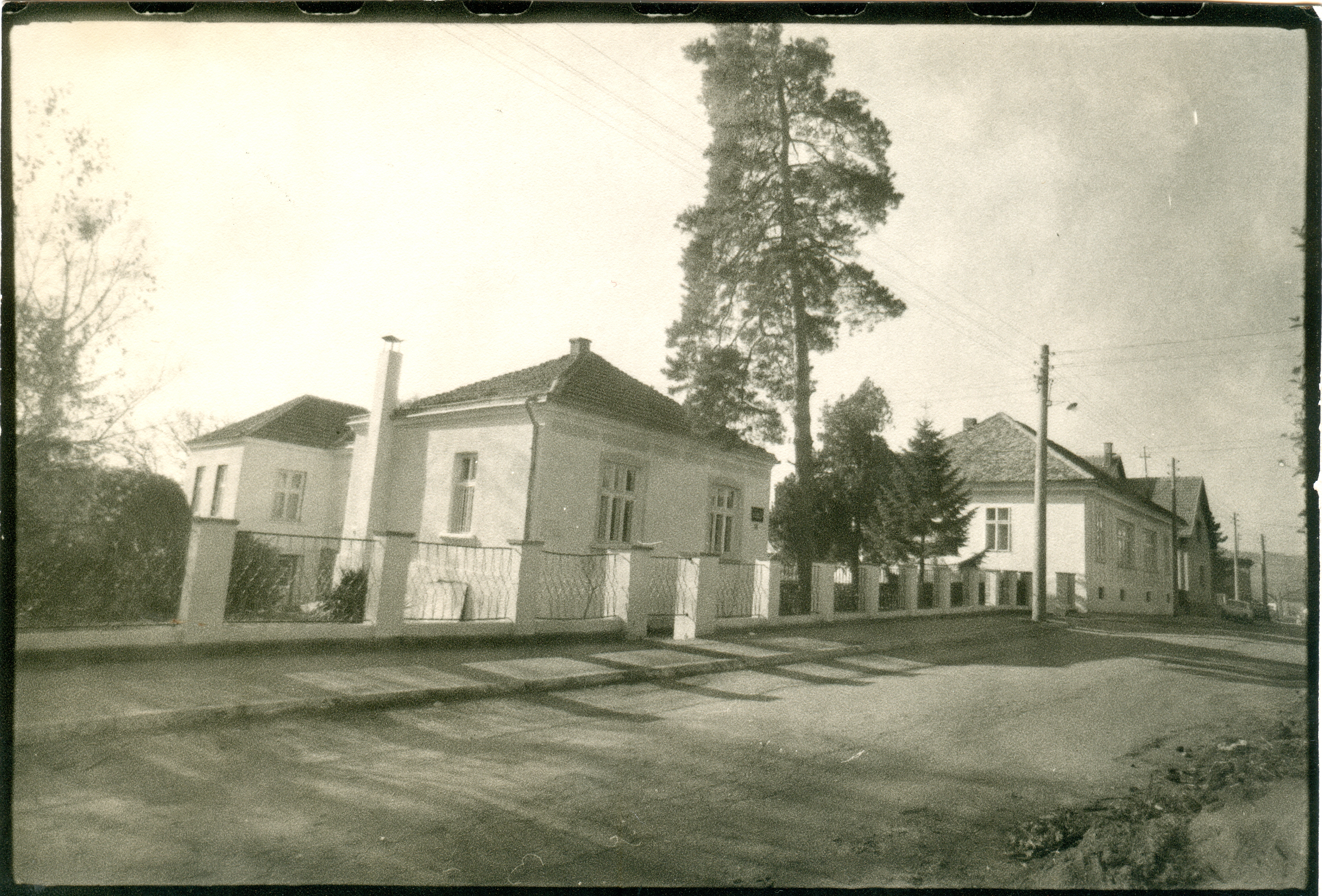 Historical archive of of Negotin of the eighties of the 20th century Srpski (latinica): Istorijski arhiv Negotina osamdesetih godina 20. veka